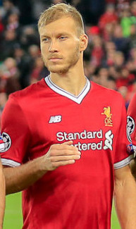 The Liverpool team line-up before the game v Spartak Moskva, December 2017.